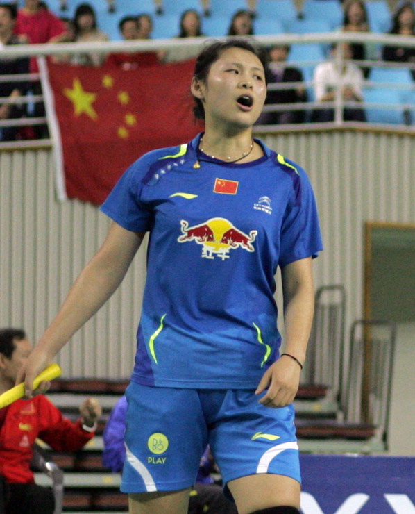 Luo Ying at the 2014 Badminton Asia Championships